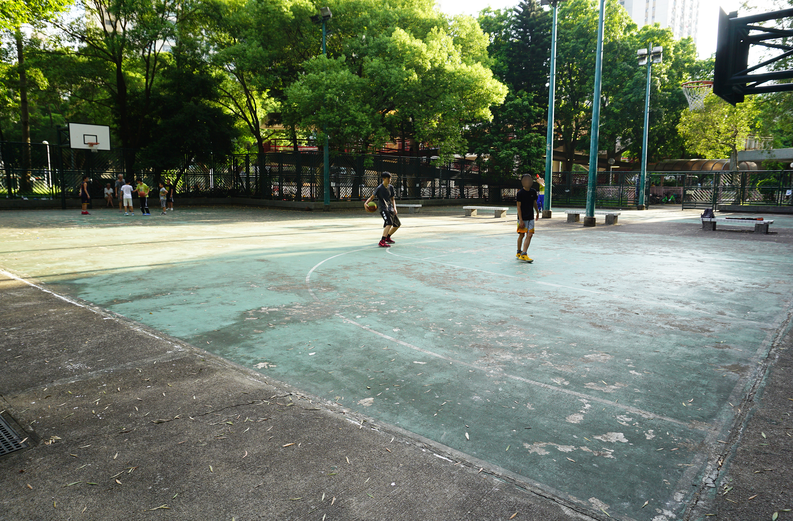 Fu Heng Estate in Tai Po, Hong Kong.